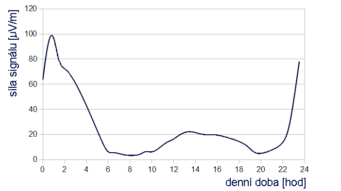 DCF77 signal strength over a 24 hour period measured in Nerja, on the south coast of Spain 1,801 km (1,119 mi) from the transmitter. Early at night it peaks at ≈ 100 µV/m signal strength.